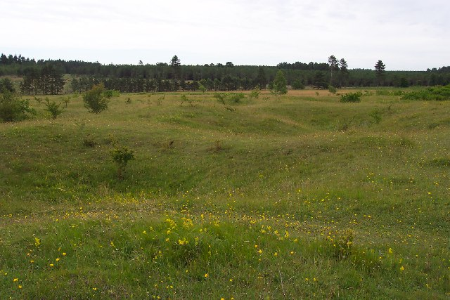 Grimes Graves, near Thetford, Norfolk. Dating from the Neolithic age of 5000 years ago, Grimes Graves is one of the country's earliest mining sites. The remains of 433 mineshafts, pits, and spoil heaps pockmark the surface of the ground where ancient man dug for flints from which to make tools and weapons. 28 of the mines have been excavated and one has been left open to allow visitors to climb down into.